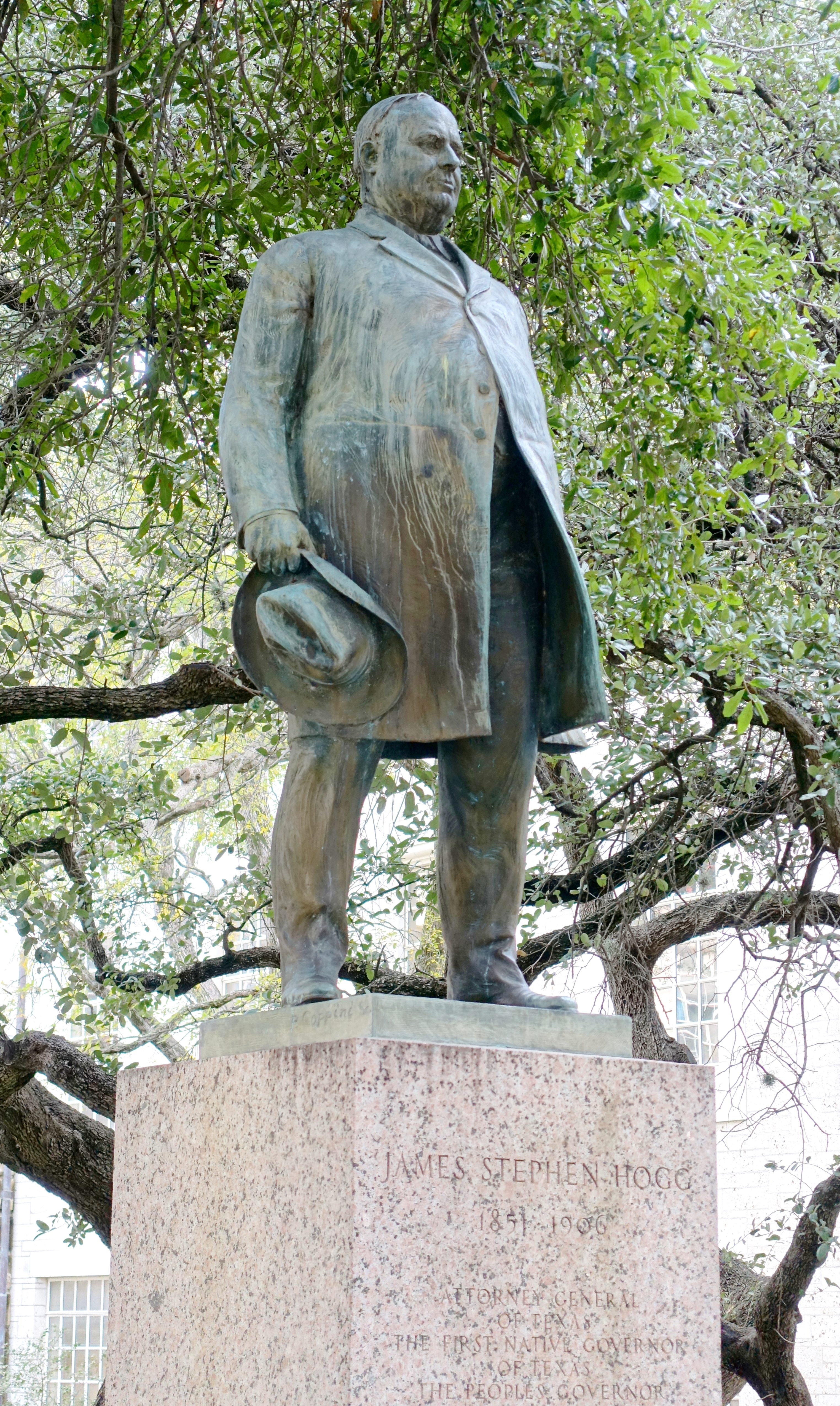 James Stephen Hogg by Pompeo Coppini - University of Texas at Austin, Austin, Texas, USA. Created circa 1923. This artwork is in the public domain because it was published in the United States between 1923 and 1963, with its copyright not renewed. Smithsonian SIRIS Control Number: IAS 77006160.